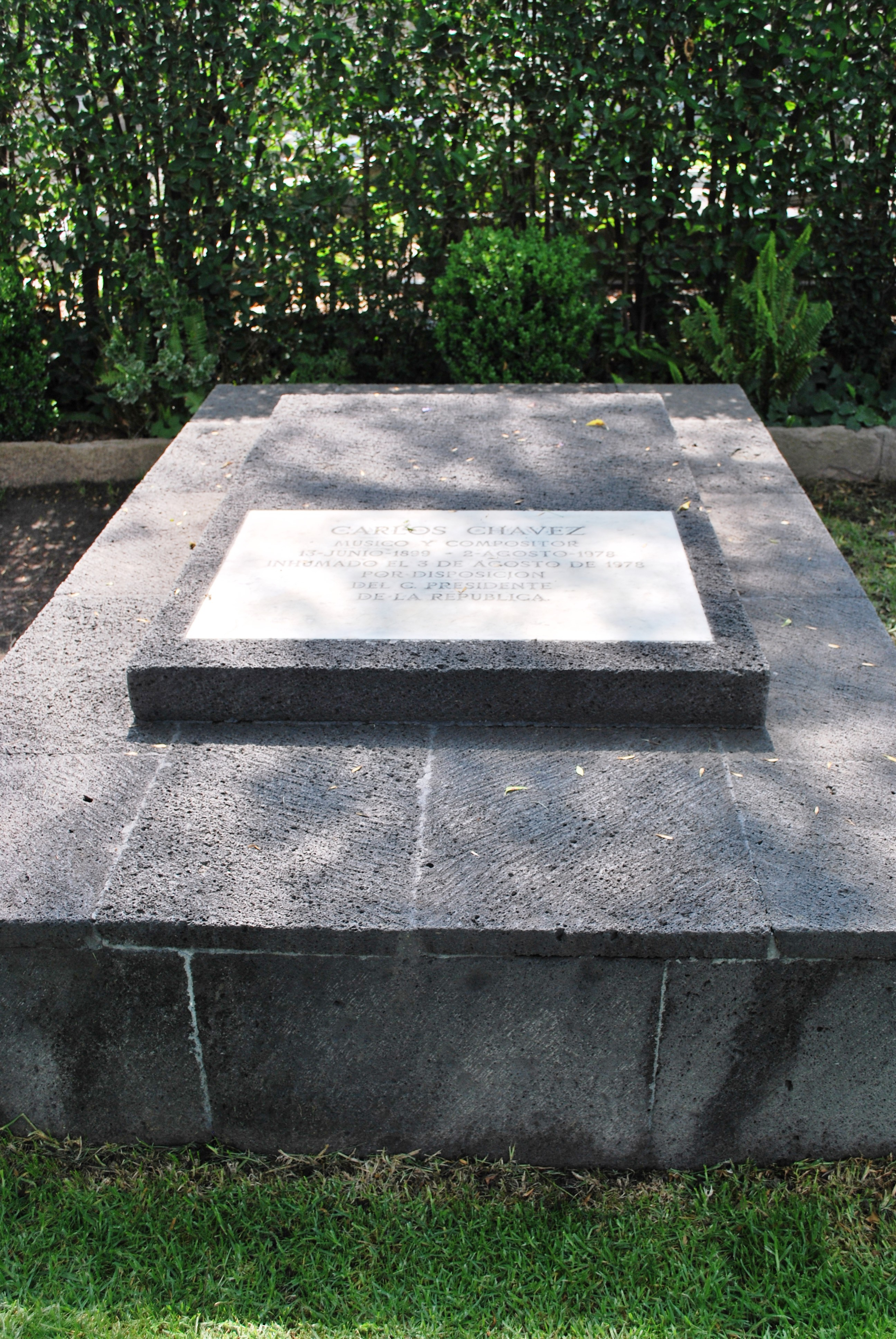 Tomb of Carlos Chávez at Dolores Civil Cemetery in Mexico City. Inscription reads (in Spanish): Carlos Chávez. Musician and composer. 13 June 1899 – 2 August 1978. Buried on 3 August 1978 by instructions of the Citizen President of the Republic.